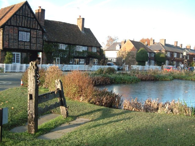 The duckpond and stocks at Aldbury